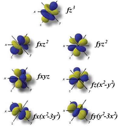 3D grafic of the wave function of f orbitals in like-hidrogen atoms